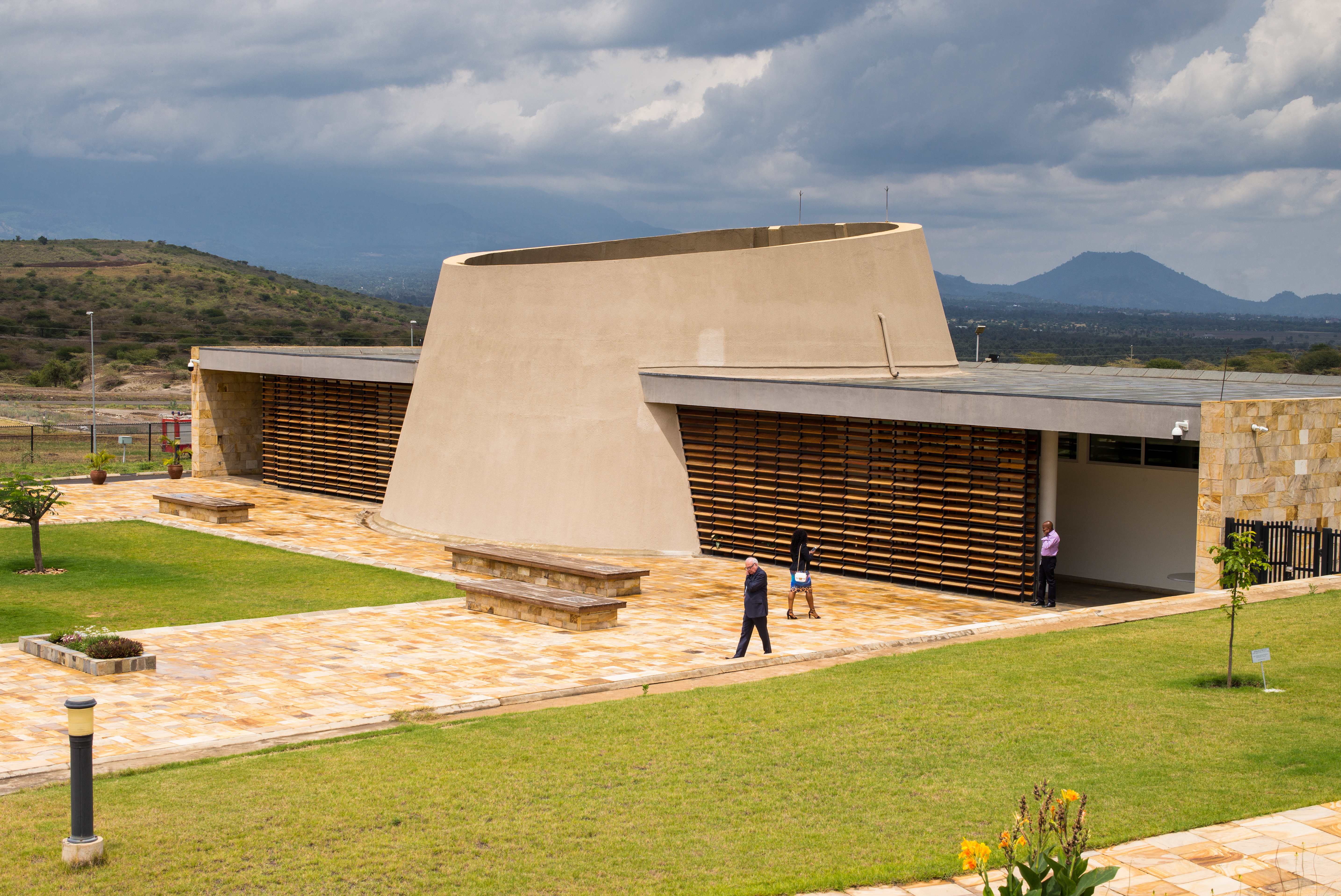 UN International Residual Mechanism for Criminal Tribunals, Arusha, Tanzania